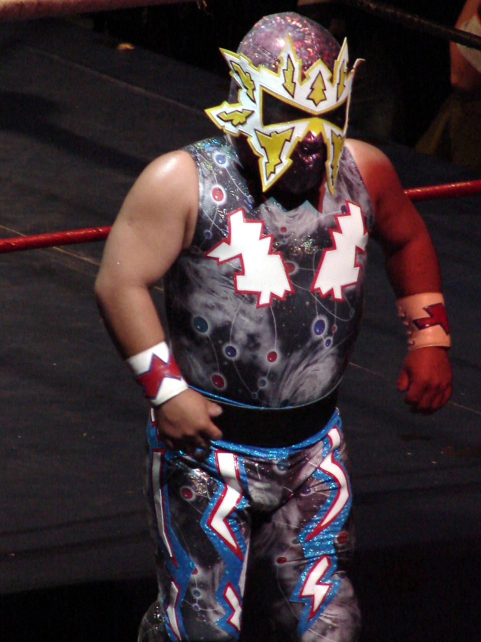 A picture of Luchador / professional wrestler Tzuki